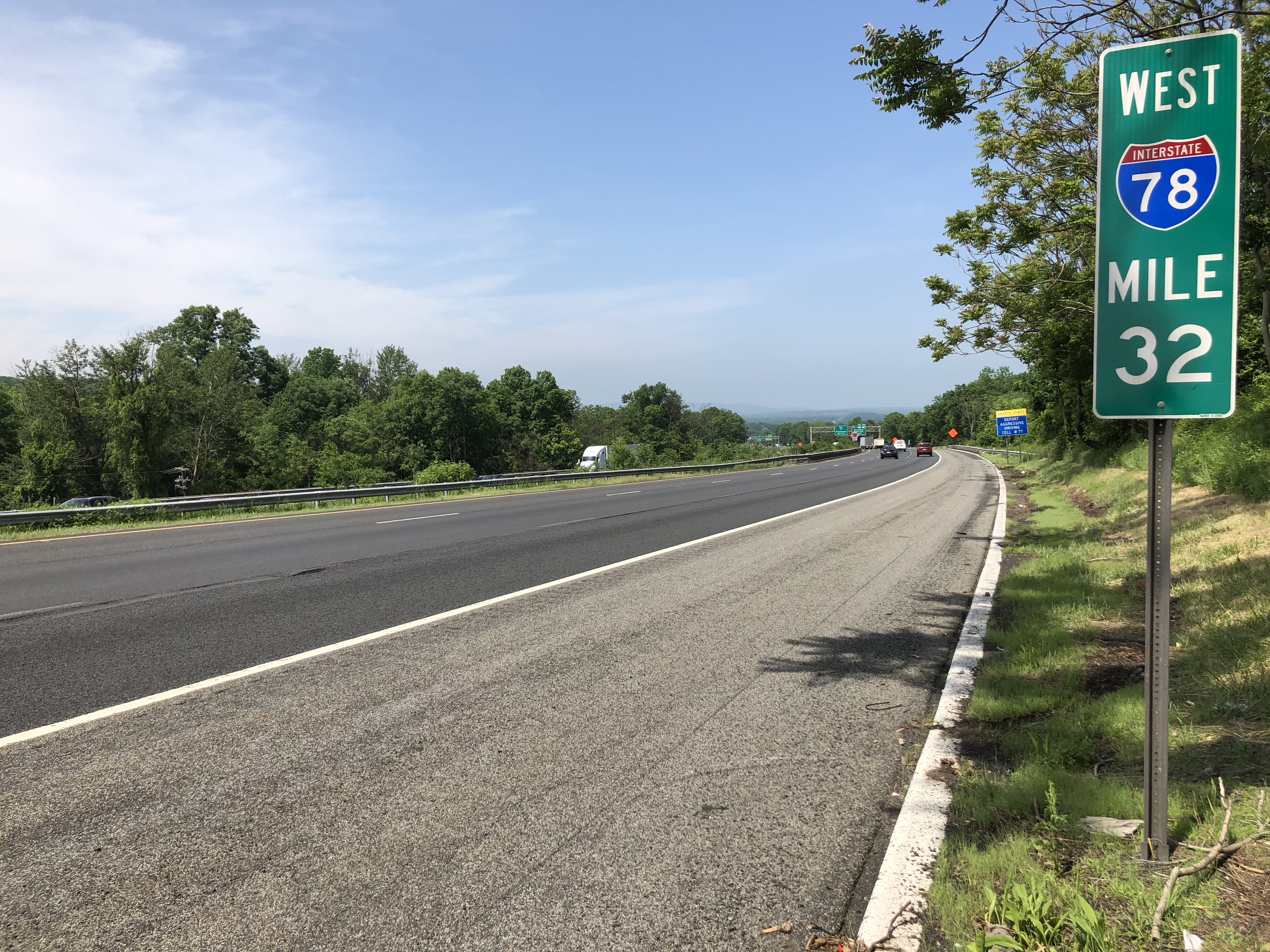 View west along Interstate 78 (Phillipsburg-Newark Expressway) between Exit 33 and Exit 29 in Bridgewater Township, Somerset County, New Jersey